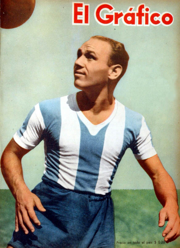 Boca Juniors player, Natalio Pescia, with the Argentina national team.